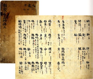 Classified dictionary of pronunciations and meanings, annotated (類聚名義抄, Ruiju Myōgishō), Kanji-in edition. Oldest extant complete edition; expanded and revised edition of the 11th century original. Part of eleven bound books. Located at Nara Tenri Tenri University LibraryTenri University Library (天理大学附属天理図書館, Tenri daigaku fuzoku Tenri toshokan), Tenri, Nara